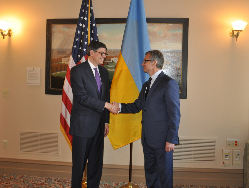 Secretary Lew and Ukrainian Finance Minister Oleksandr Shlapak meet at Treasury. Secretary Lew and Ukrainian Finance Minister Oleksandr Shlapak participated in a signing ceremony for a $1 billion loan guarantee for the Government of Ukraine. This guarantee will complement the Government of Ukraine’s International Monetary Fund (IMF) reform program and underscores the United States’ commitment to Ukraine.